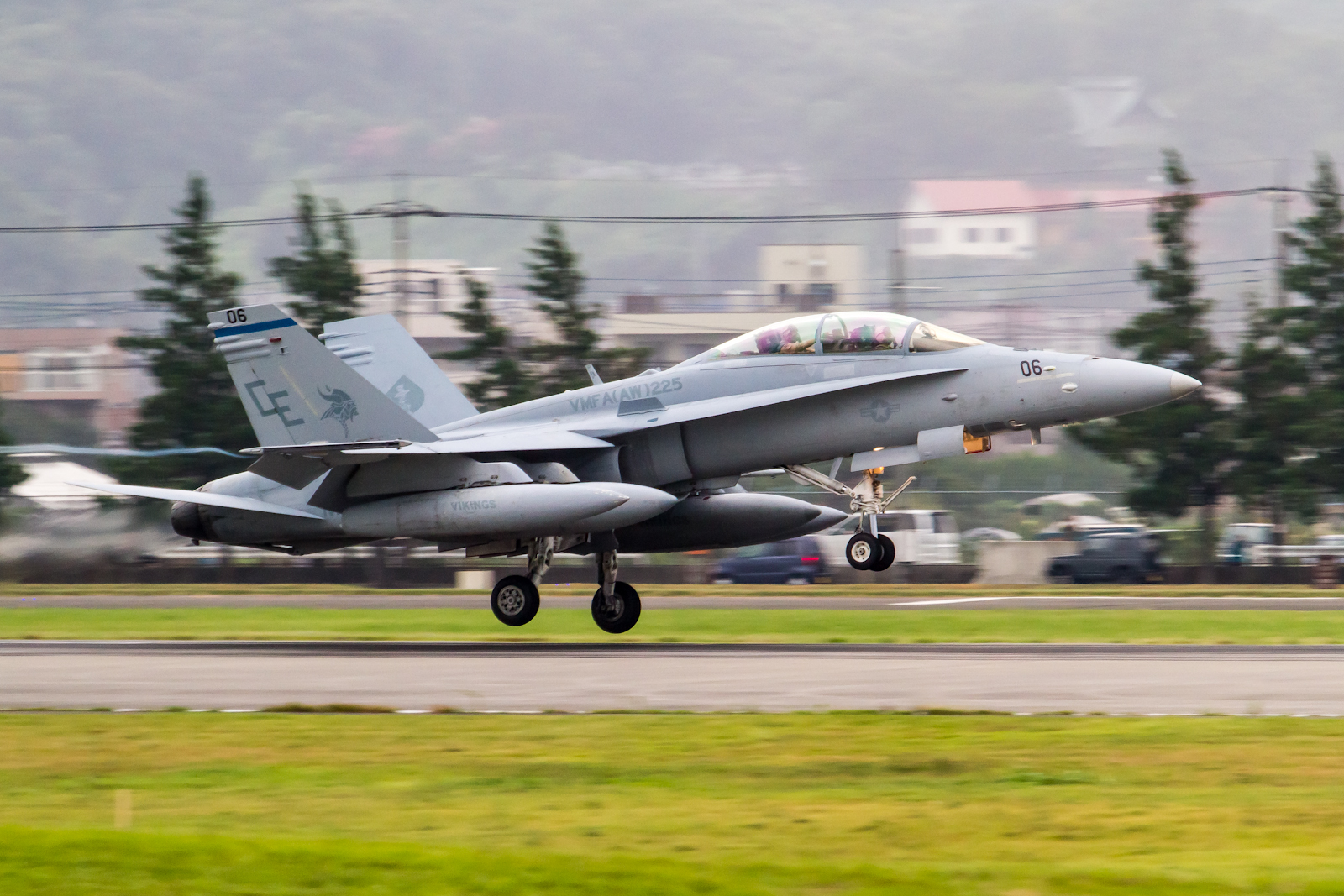 Aircraft: Boeing F/A-18D(Bu.No.165415) Squadron: USMC 3rd MAW / VMFA(AW)-225 "Vikings"(MAG-11) Base: MCAS Miramar(KNKX), San Diego, California, United States 17/08/2012 USAF Yokota AB, Japan